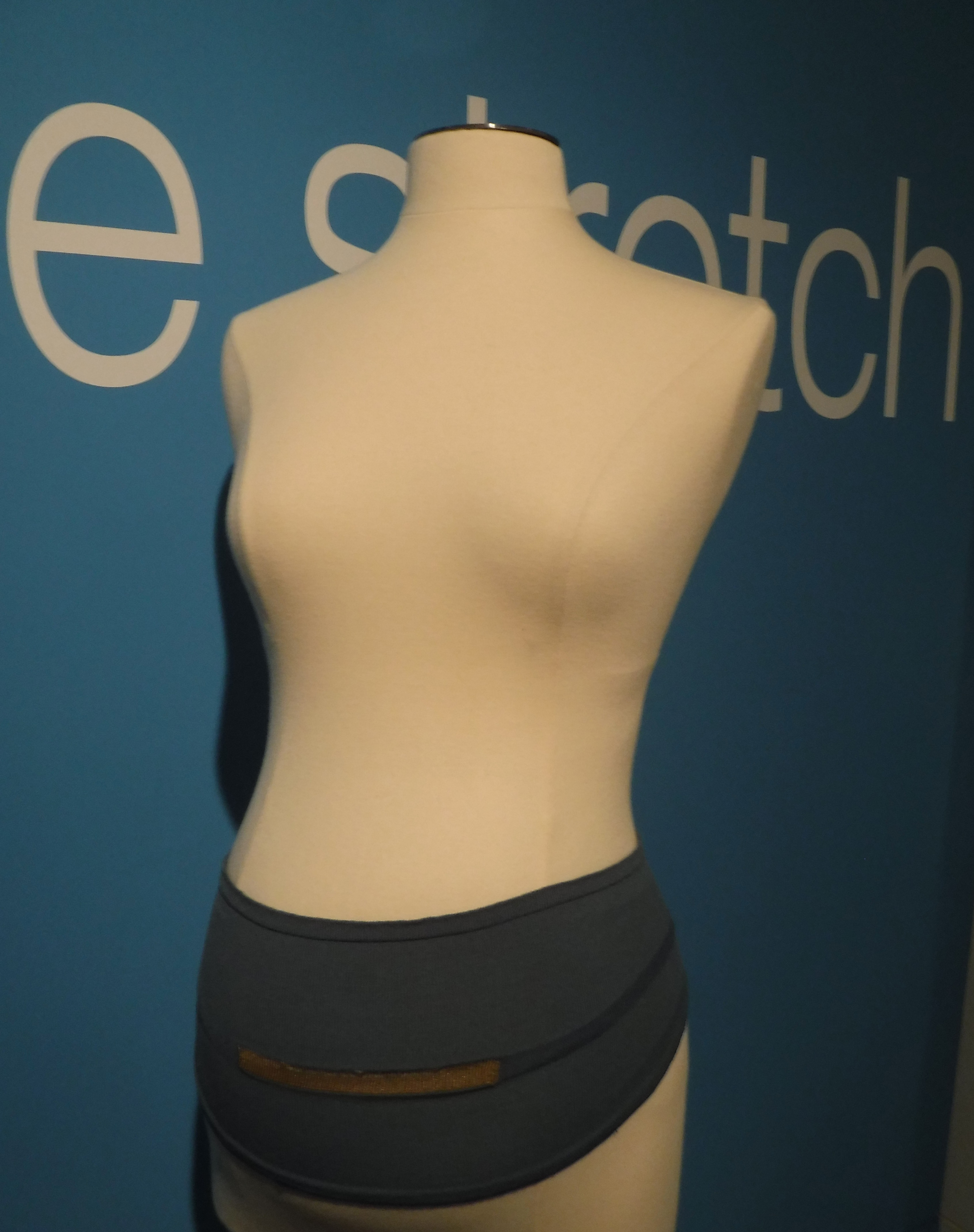 Bellyband with RFID chip developed by Shima Seiki Haute Technology Laboratory of Drexel University, displayed on mannequin as part of the museum exhibition Second Skin: The Science of Stretch at the Chemical Heritage Foundation, on view from November 4, 2016 to May 13, 2017. The bellyband is designed to monitor uterine contractions and potentially fetal heartbeat. It is intended to be worn by women who are in labor or who are experiencing a difficult pregnancy. Conductive threads in the knitted fabric function as an antenna and send signals to an embedded RFID (radio frequency identification device) that reports the data. This type of sensing technology may have further applications.